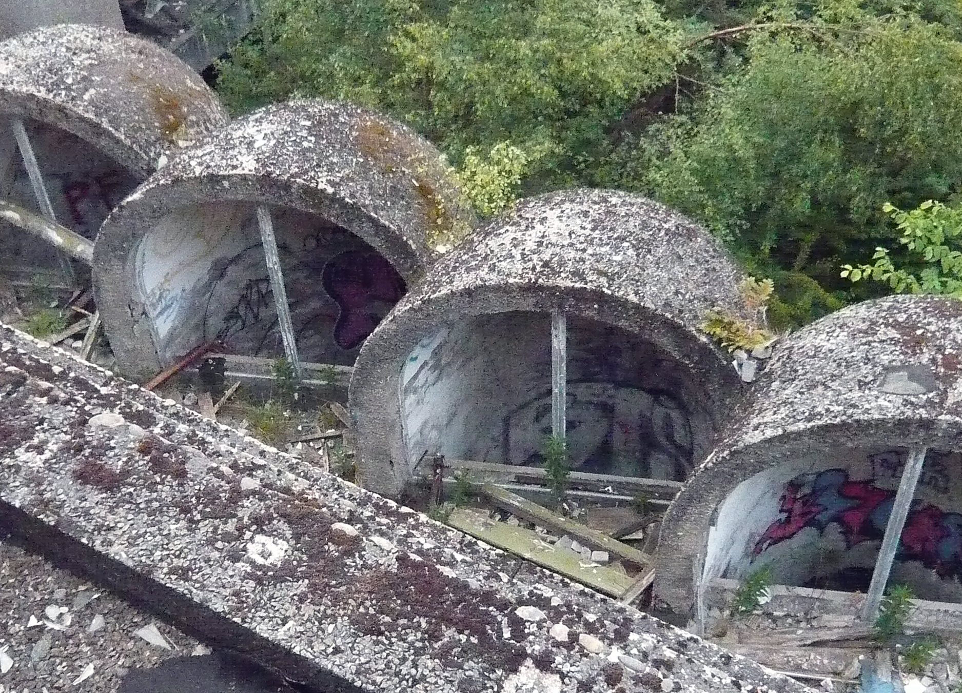 Part of a collection of own work photographs of St Peter's Seminray in Cardross, taken June 2010.